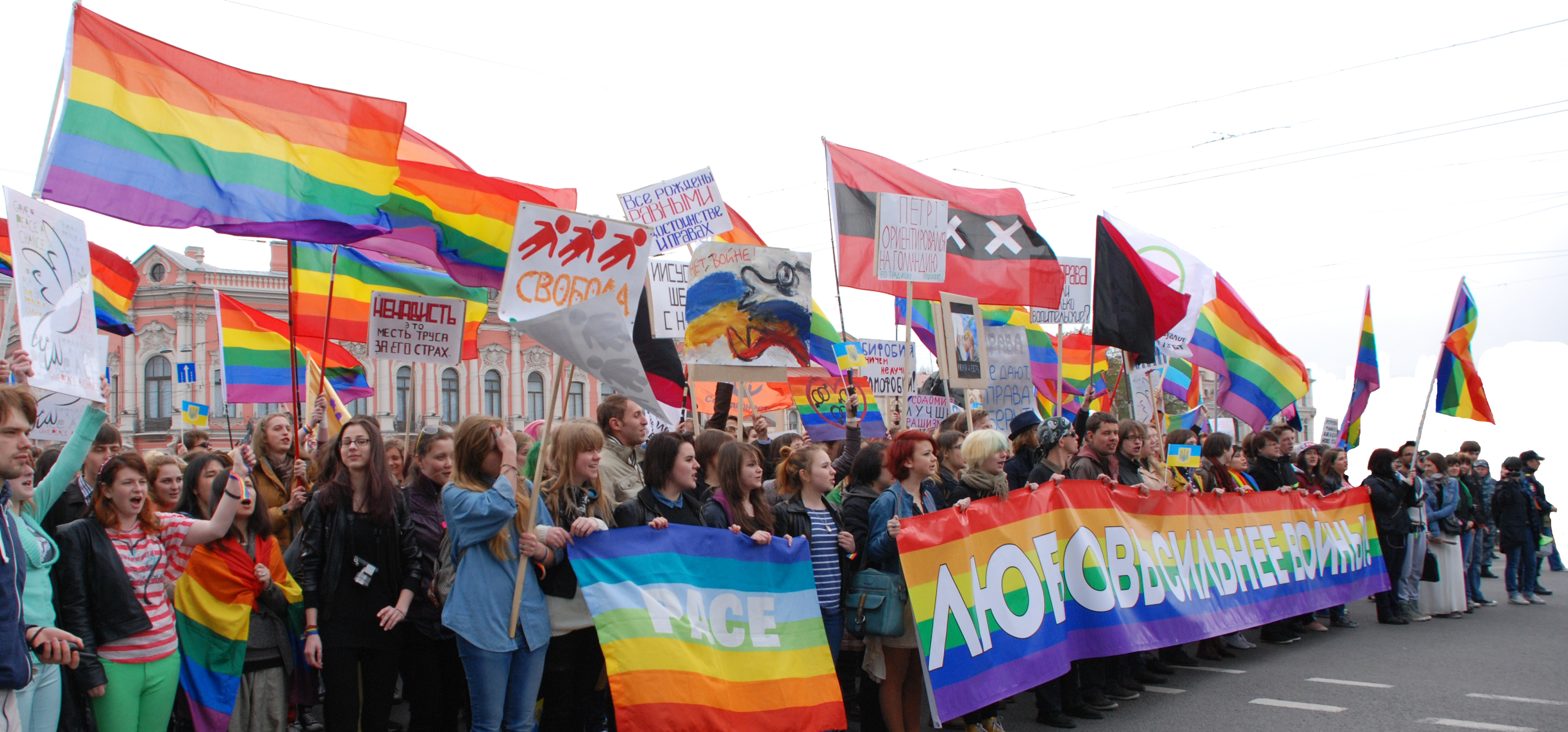 LGBT Column demonstration in St. Petersburg on May 1 against the war in Ukraine and Russia